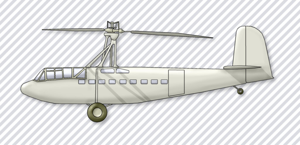 sketch of Focke Achgelis Fa 225